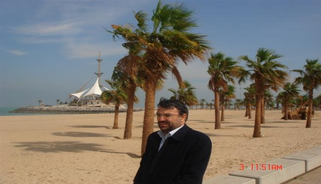 S.M.Hosseini in Sharqia Saoudi Arabia